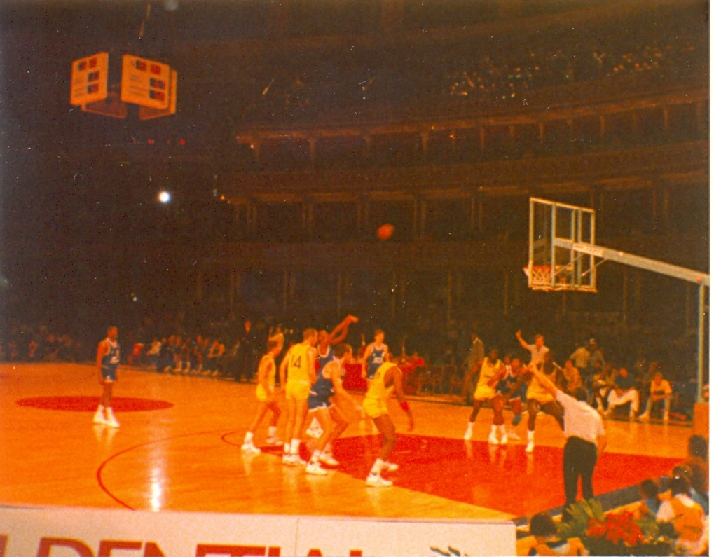 Portsmouth FC Basketball Club v Kingston Kings, National Cup final, Royal Albert Hall, London, December 14th 1987. Portsmouth (in blue) at the free-throw line.